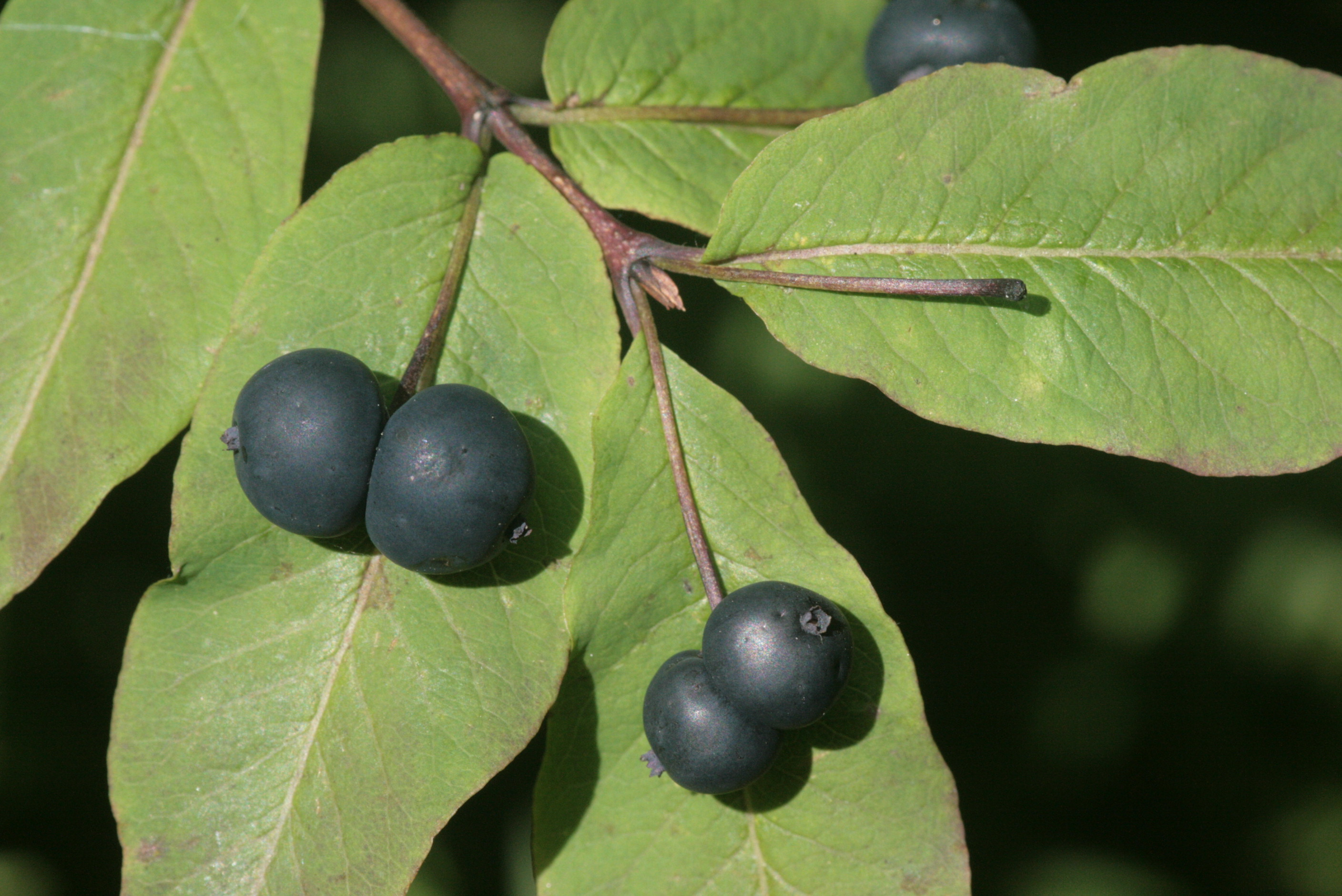 Lonicera nigra